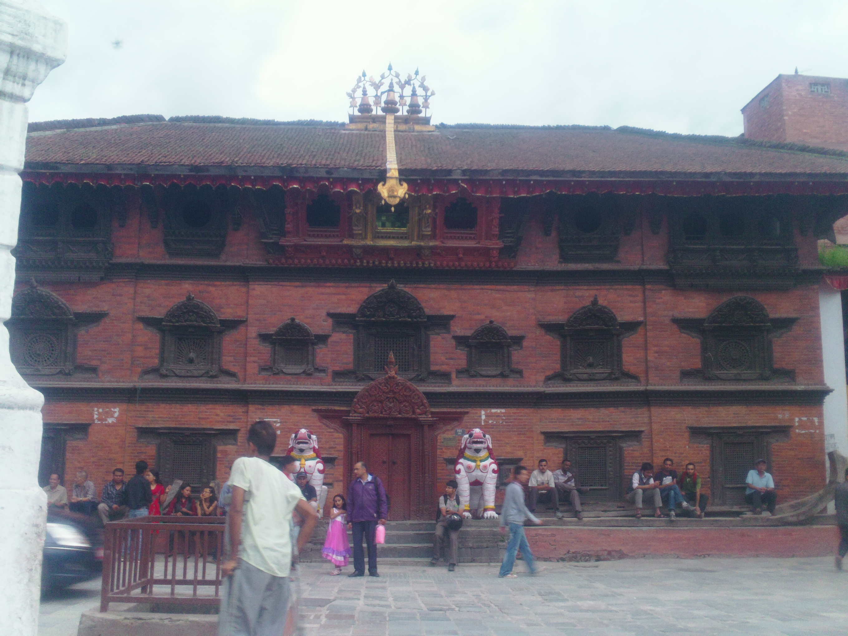 Kumari Ghar